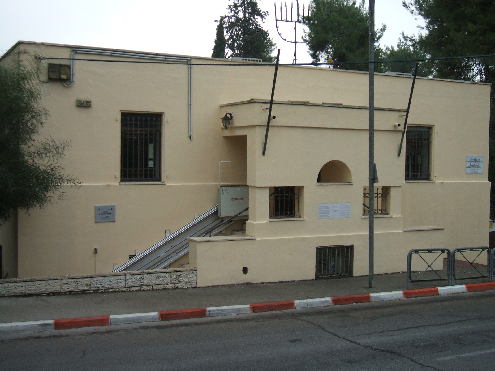 Old community house, Beit Hakerem, Jerusalem